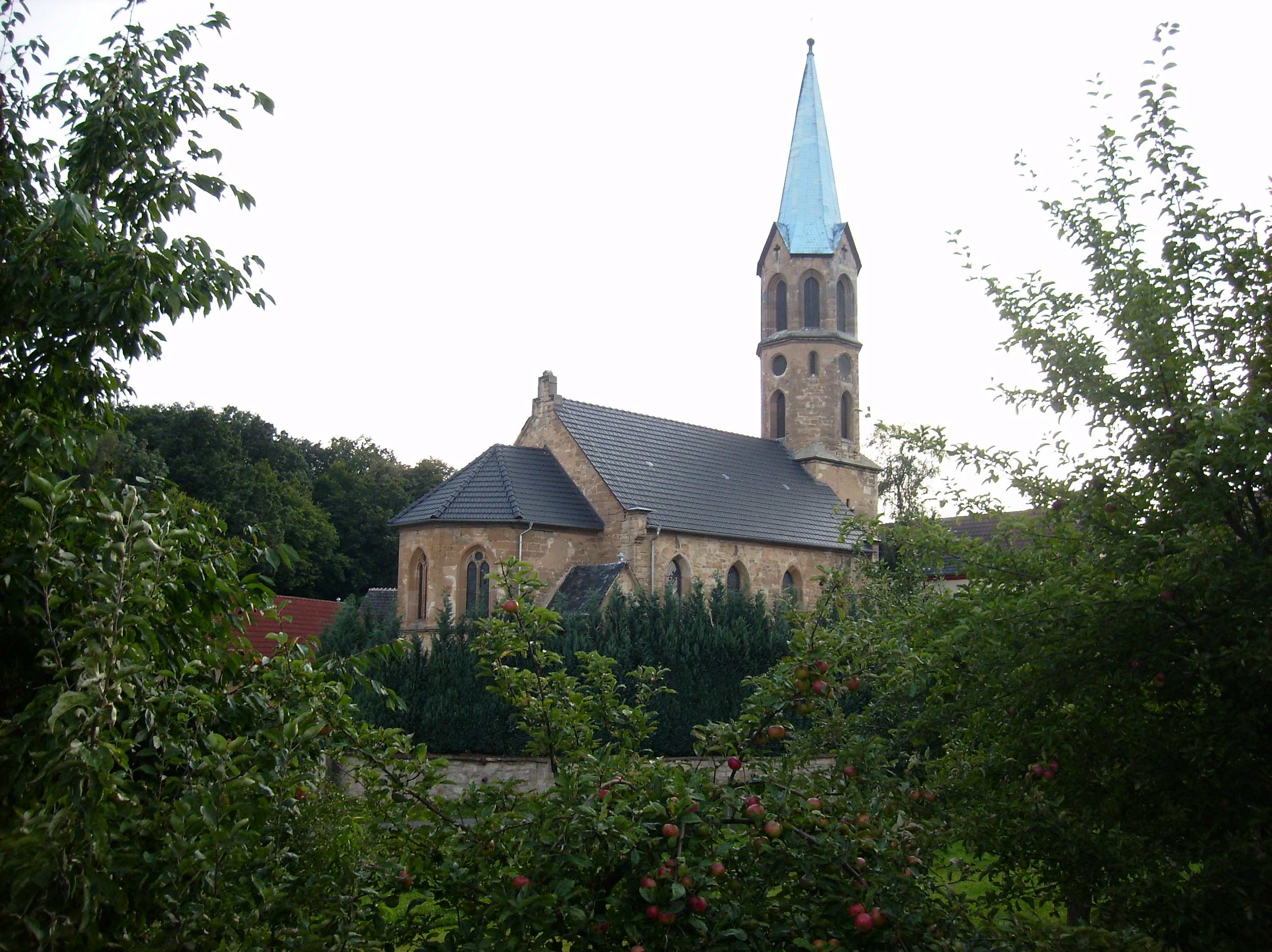 Church of the village of Buchheim (Heideland, district of Saale-Holzland-kreis, Thuringia)